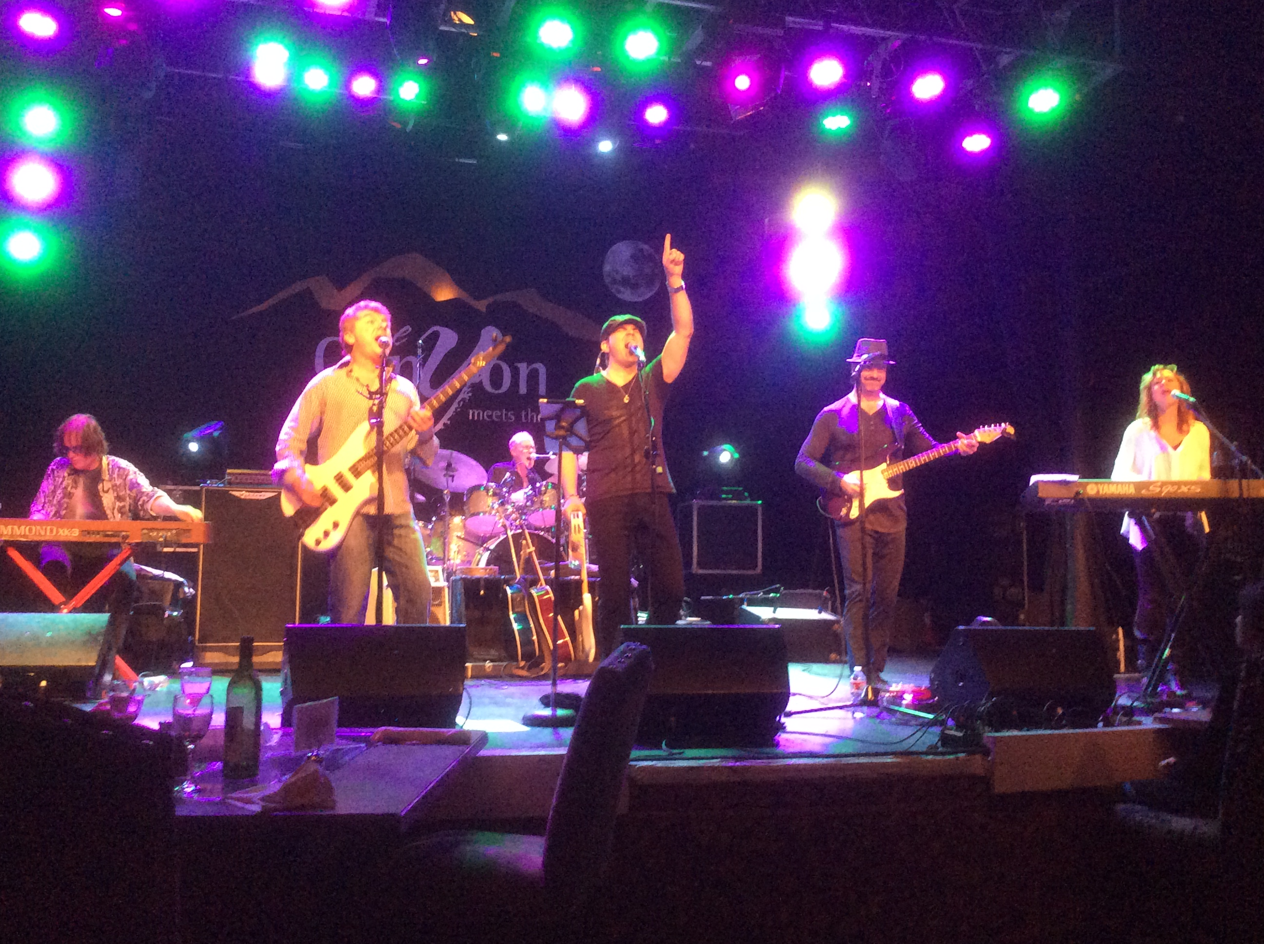 The progressive rock group Ambrosia in concert at the Canyon Club, Agoura CA on May 24, 2014